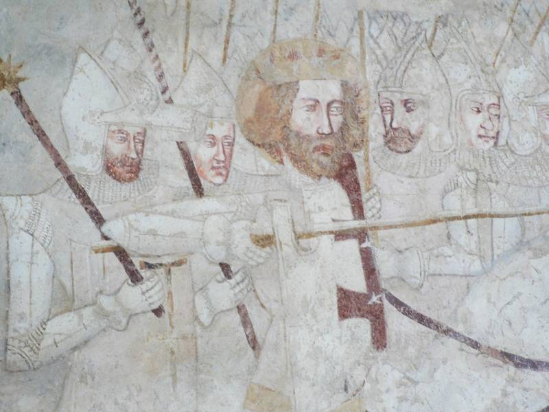 Mural in Kraskovo church, Slovakia: The Saint Ladislaus legend, detail with the cavalier-king saint, depicted with King Sigismund's face